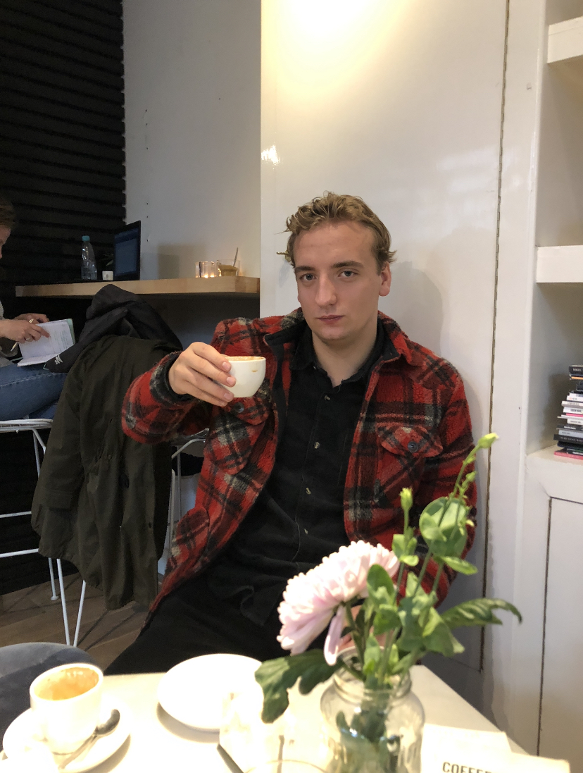 Axel Gåve, journalist och fd innebandyproffs